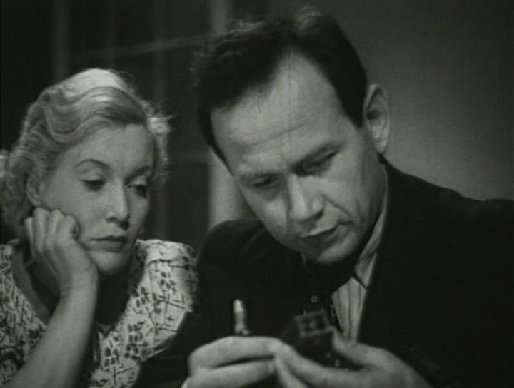 Frame from "Oshibka inzhenera Kochina" ("The mistake of engineer Kochin")